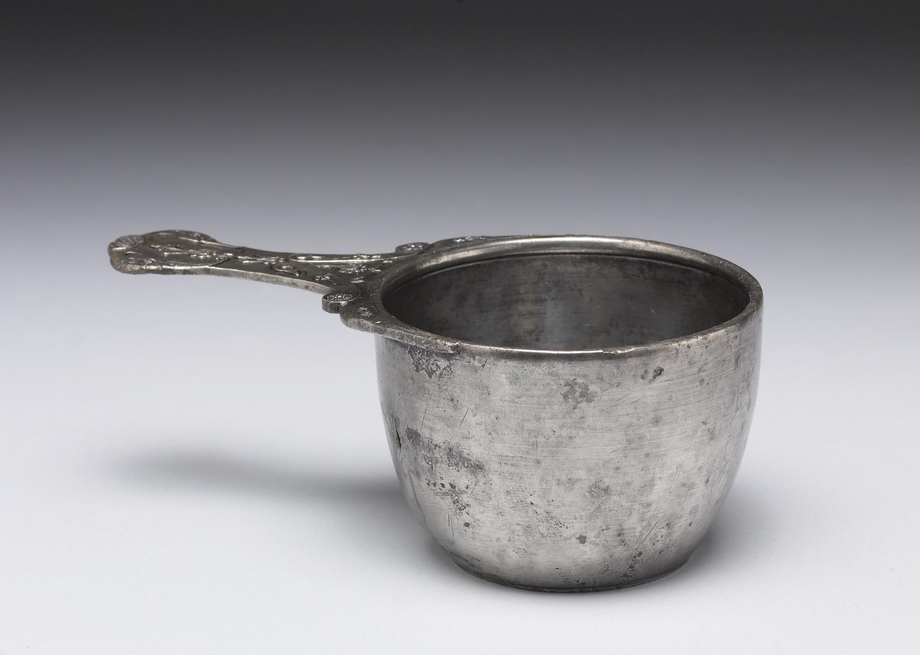 Deep "trullae," or serving-pans, are usually found in pairs, one slightly smaller than the other, so they could be nested together when not in use. They were probably used for serving liquids. This one, a pair with Walters 57.2102, is unusually fine and is decorated with floral patterns and duck heads.